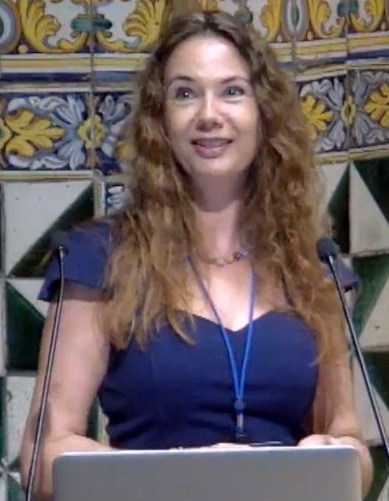 When Computational Chemistry Meets Artificial Intelligence. Lecture by URSULA ROTHLISBERGER, Ecole Polytechnique Fédérale de Lausanne, Switzerland. Organization: Catalan Society of Chemistry (IEC) and European Association of Chemical and Molecular Sciences (EuCheMS).